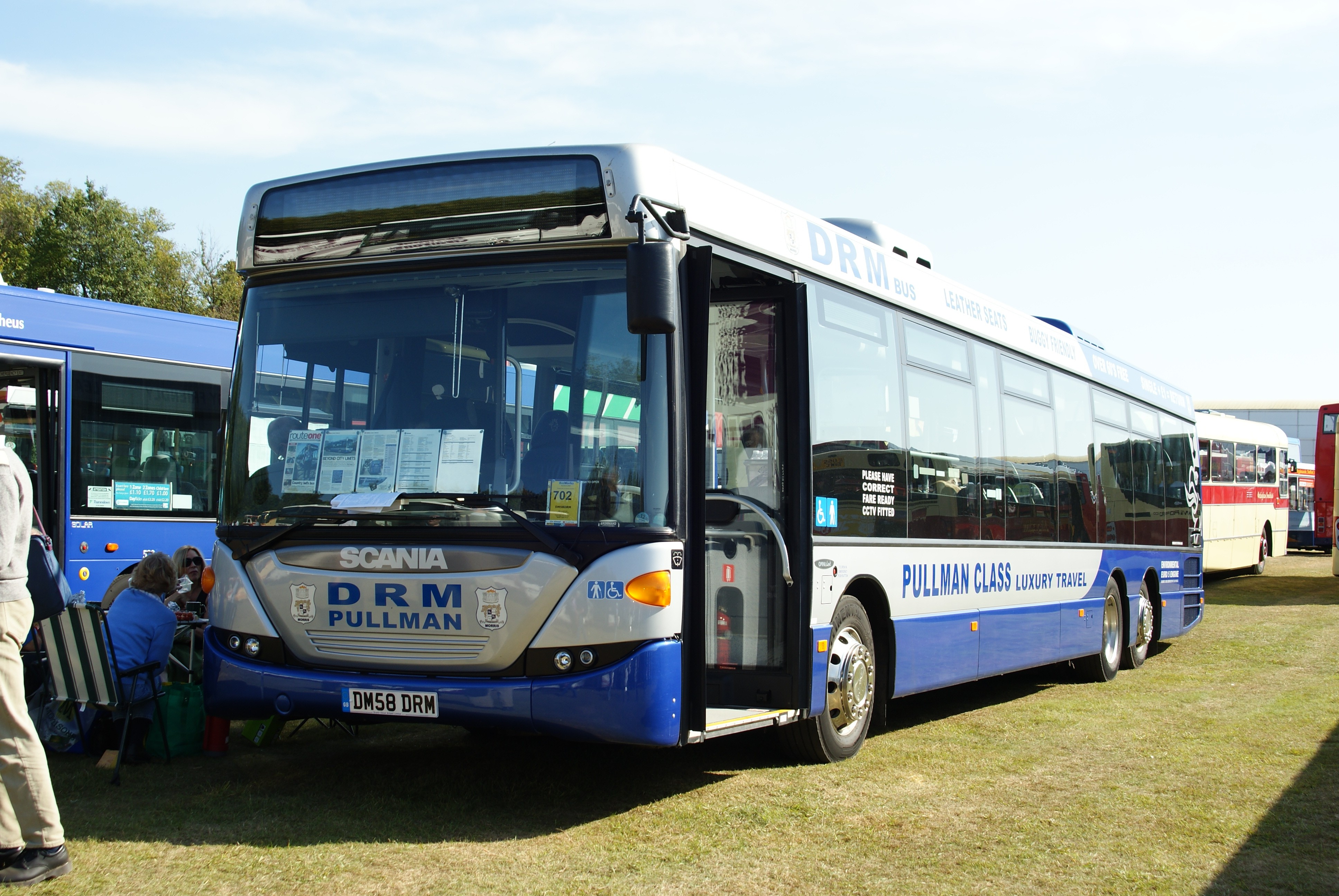 DM58DRM-4 270909 CPS